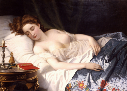 Illustration of Imogen, main character of Shakespeare's Cymbeline. Imogen in her bed-chamber where Iachimo witnesses the mole under her breast.